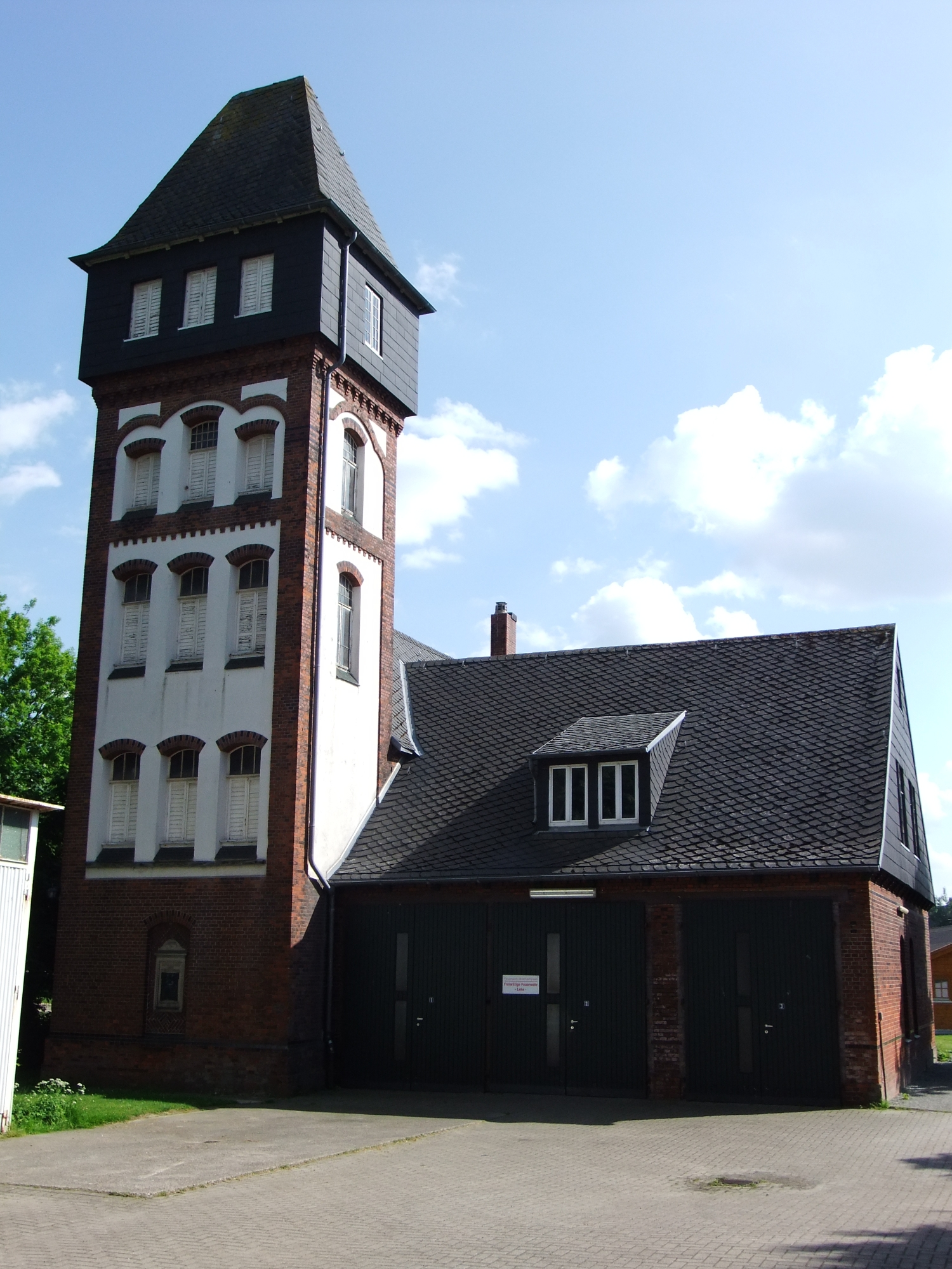 old fire station in Bremerhaven/Lehe (Germany), part of the cutural heritage of Bremen